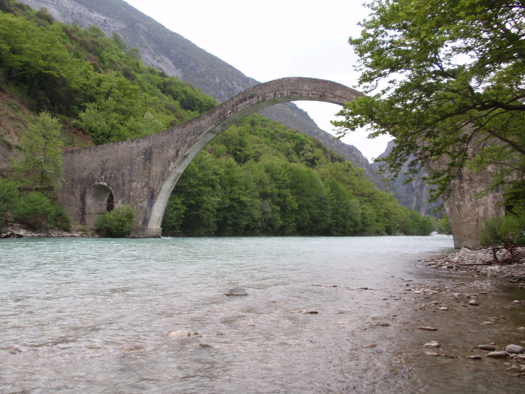 Plaka Bridge over Araxthos river